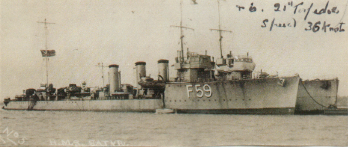 HMS Satyr F59 1918. Collection of Captain Robert Storrar Boyd (1888 – 1977), Photograph taken 1918 at Harwich where she was stationed.